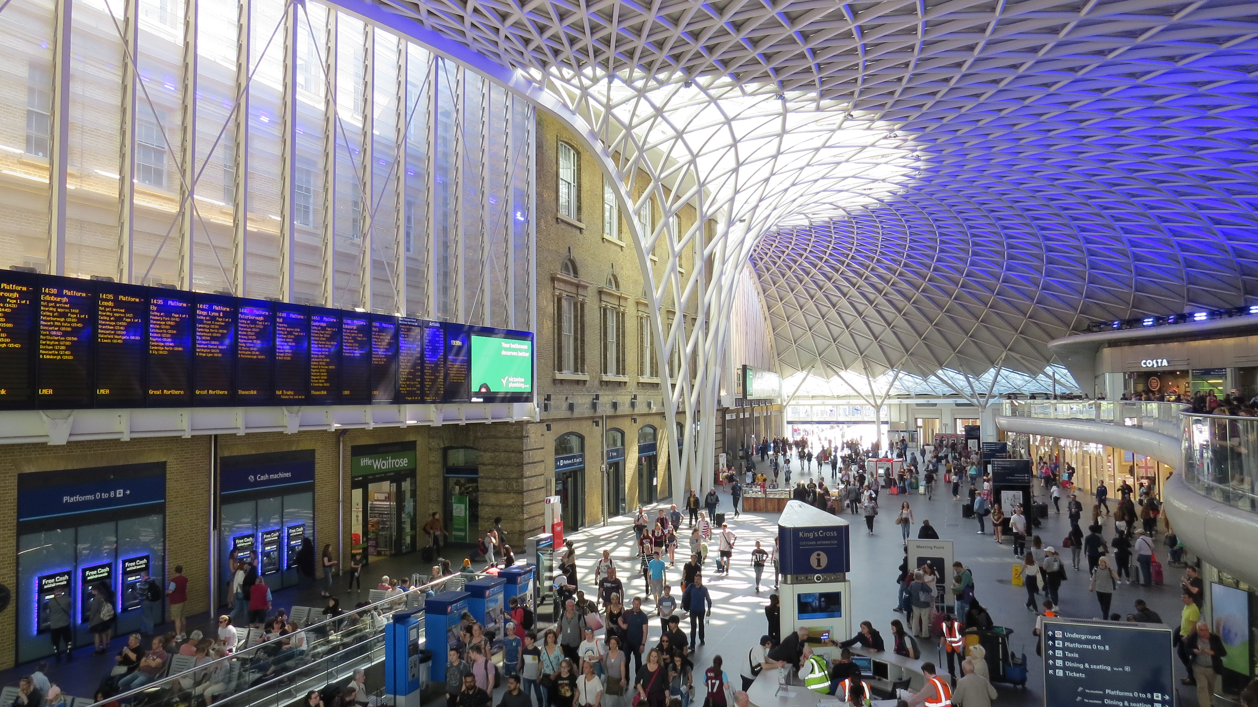 King's Cross following refurbishment in 2012. The steel structure of the roof, engineered by Arup